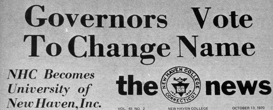 Governors Vote to Change Name from New Haven College to University of New Haven